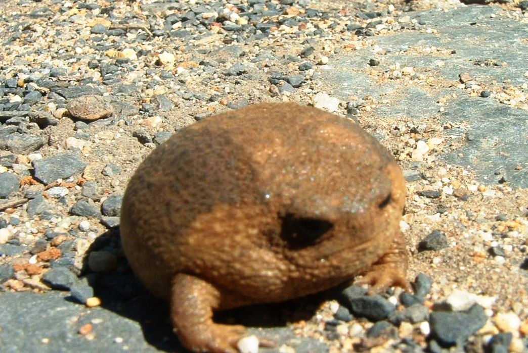 The Cape Rain frog. Breviceps gibbosus.